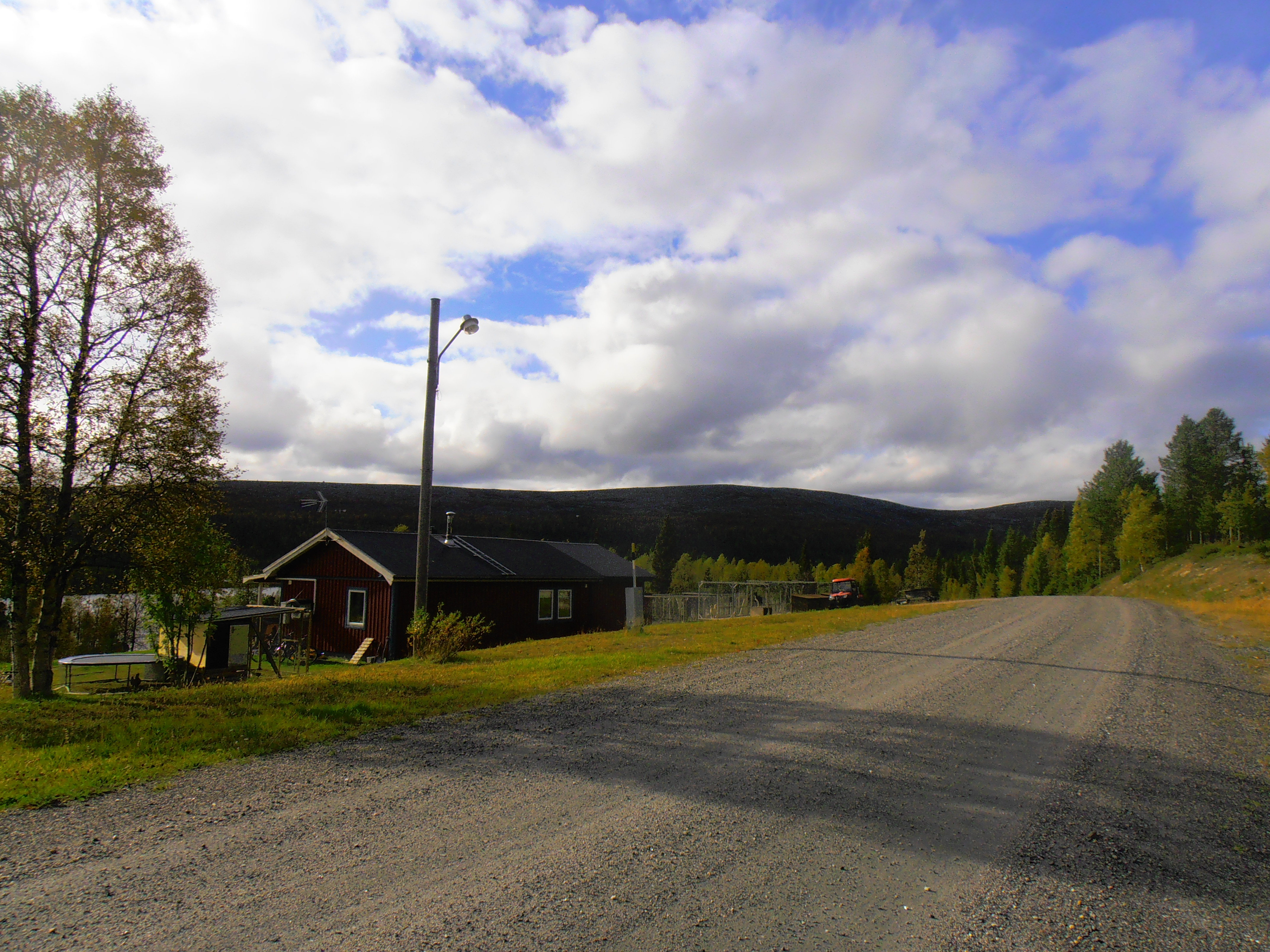 Avvakko, Gällivare